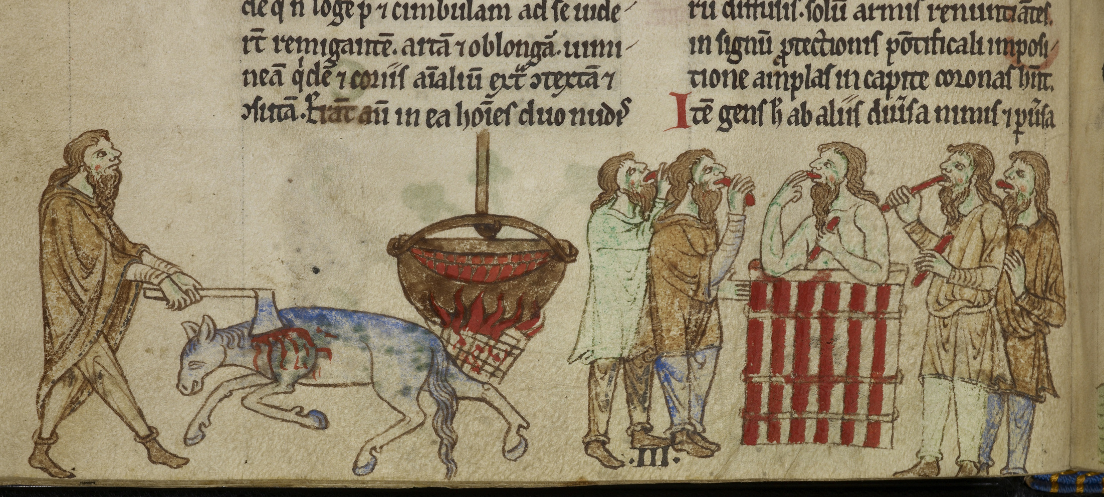 Irish kingship ritual (Detail) An Irish ritual of kingship: the sacrifice of a white mare and preparation of a stew, in which the king bathes and which his supporters eat.